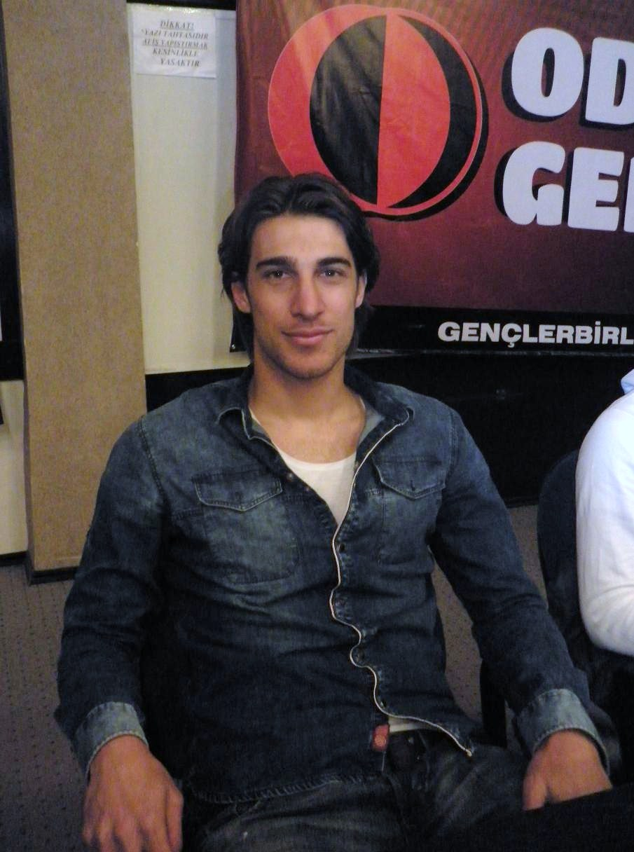 Özgür İleri, Turkish footballer at METU.